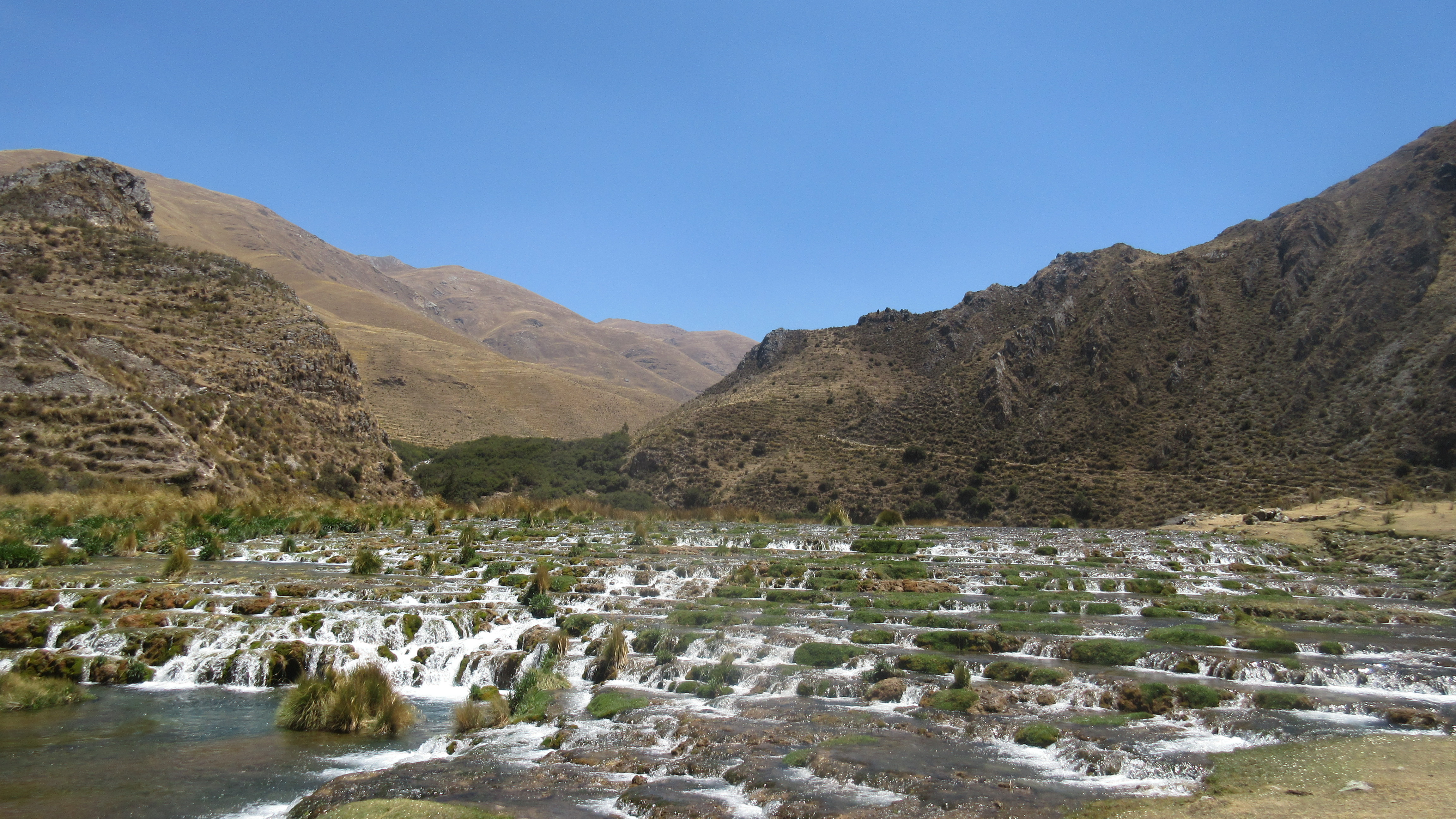 Vilca district-Huancaya-PERÙ